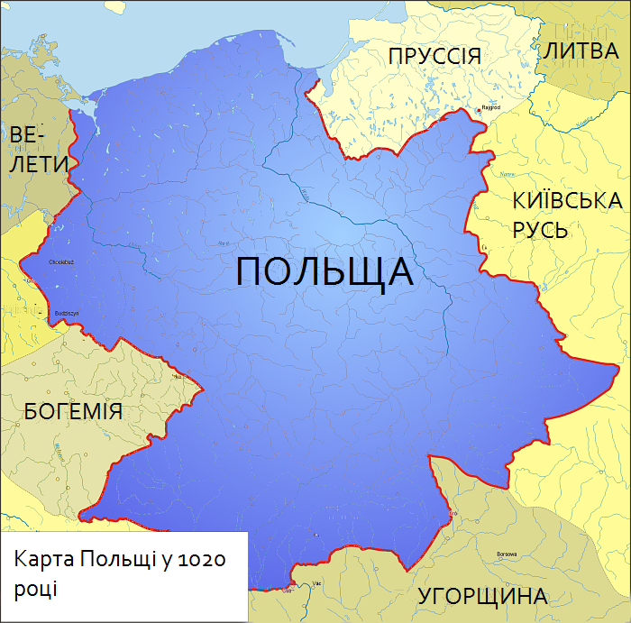 Карта Польщі у 1020 році Poland in the year 1020